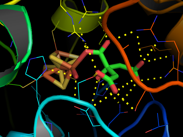 Pymol image created using data from PDB file 1C96.